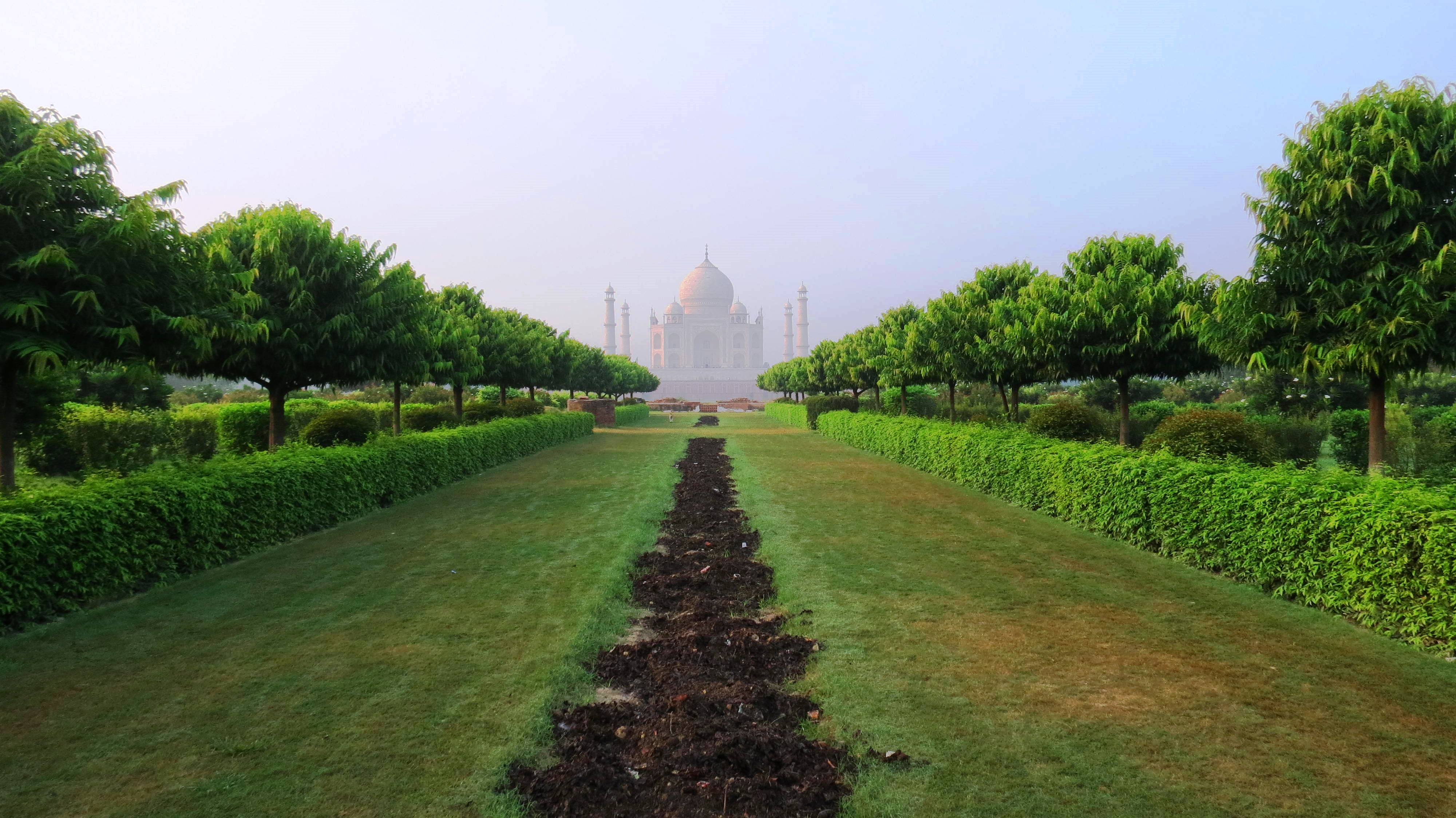 Mehtab Bagh on the river bank, facing the Taj.